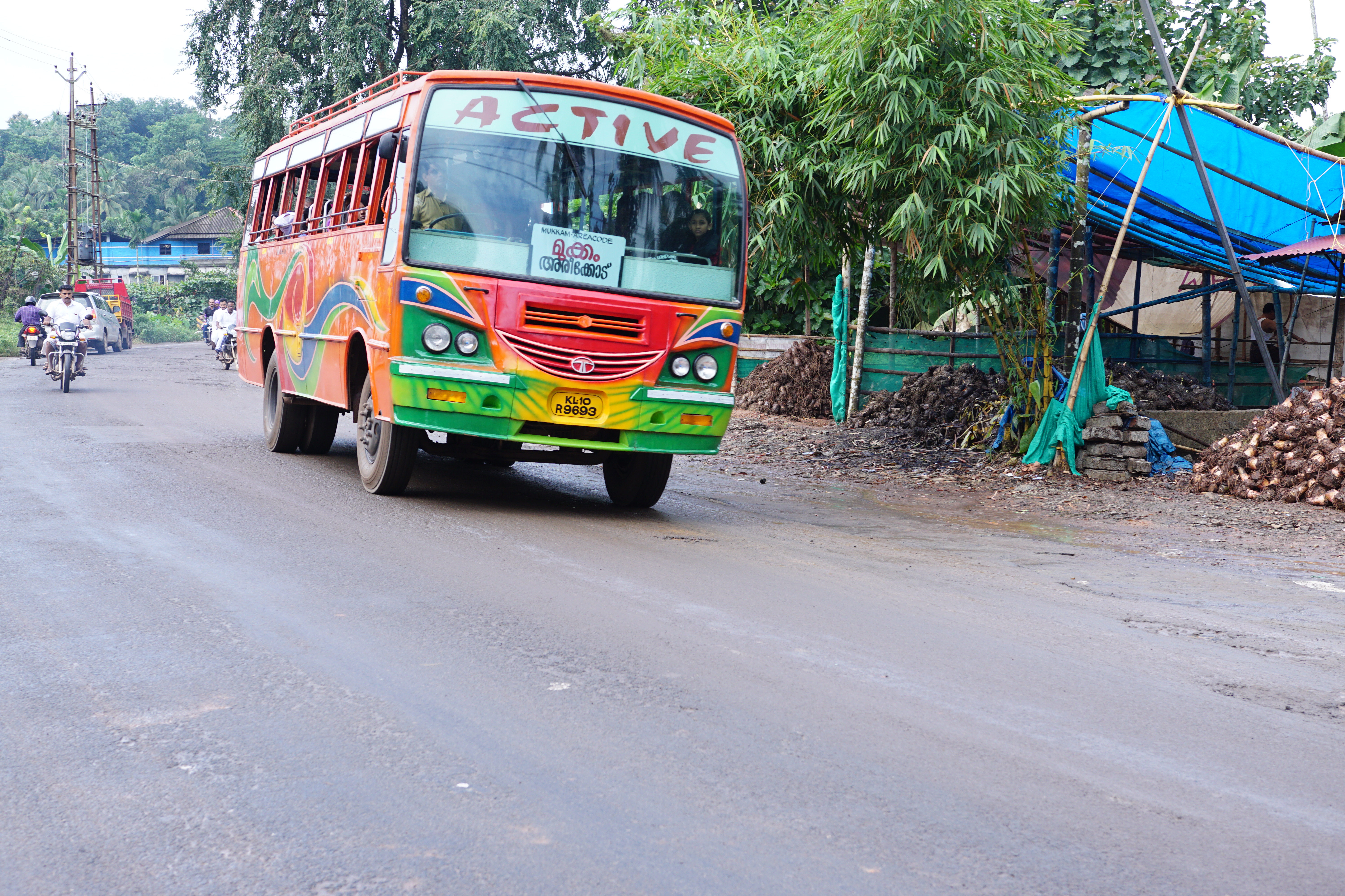 Karasseri